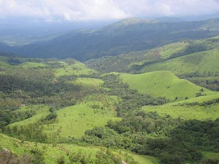 An example of the scenery en route to Kemmangundi.